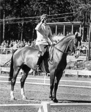 Mauno Roiha and Laaos at the 1952 Summer Olympics in Helsinki.